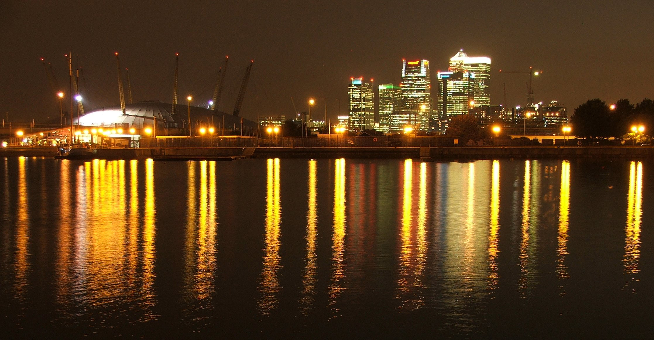 The Millennium Dome and Canary Wharf from the Royal Victoria Dock.